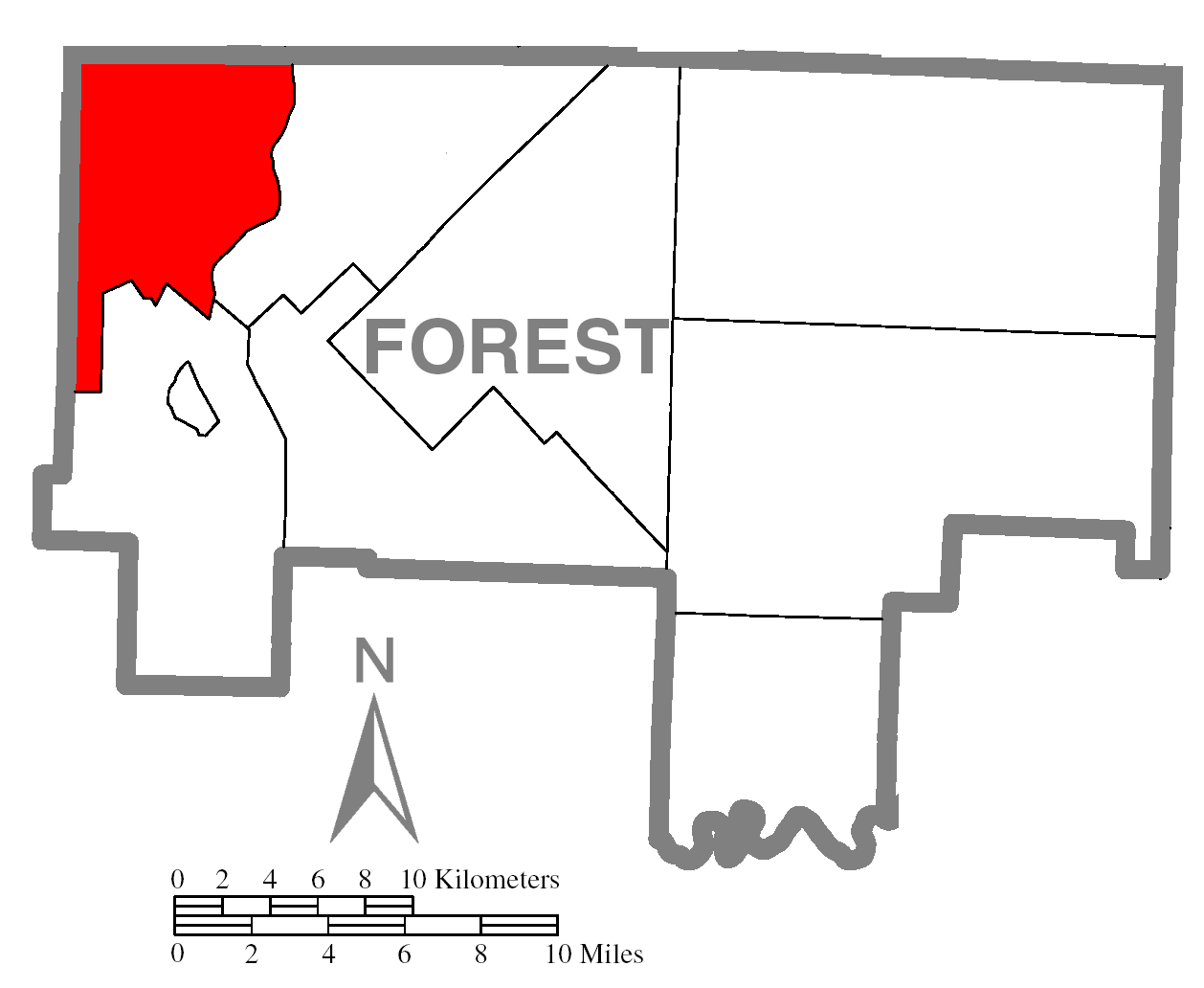 A map of Forest County showing Harmony Township, Pennsylvania (alternate) highlighted on the map.